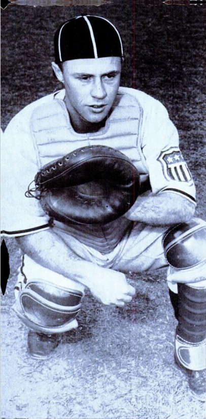 An image of Major League Baseball catcher Ed Fitz Gerald.